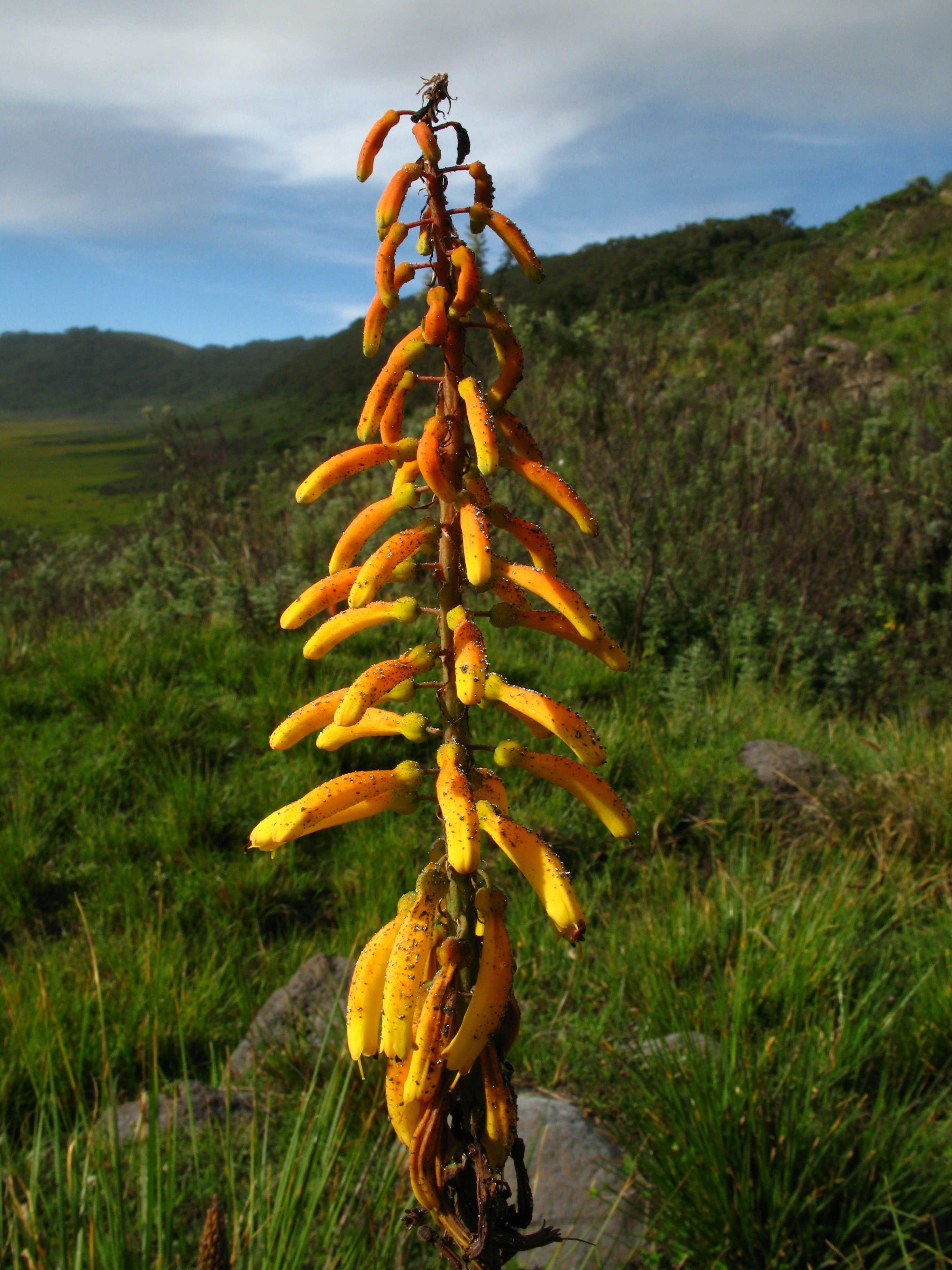 Kniphofia thomsonii (Red Hot Poker), Olmoti, Tanzania